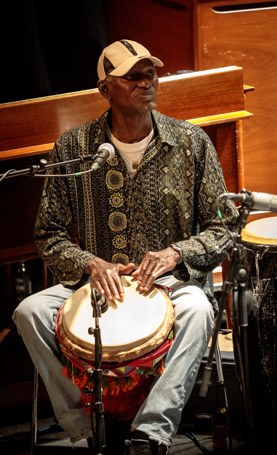 Miki N`Doye with The Organ Club «Club7 revival» at Cosmopolite in Soria Moria. The concert took place on 26. October 2017. Lineup: Little Earl Wilson (vocal), Susanne Fuhr (vocal), Calle Neumann (saxophone), Vidar Johansen (saxophone), Erik Wesseltoft (guitar), Kjell Larsen (guitar), Brynjulf Blix (organ), Miki N`Doye (percussion), Bugge Wesseltoft (organ), Sveinung Hovensjø (bass guitar), Bjørn Jensen (drums) and Charles Mena (drums).